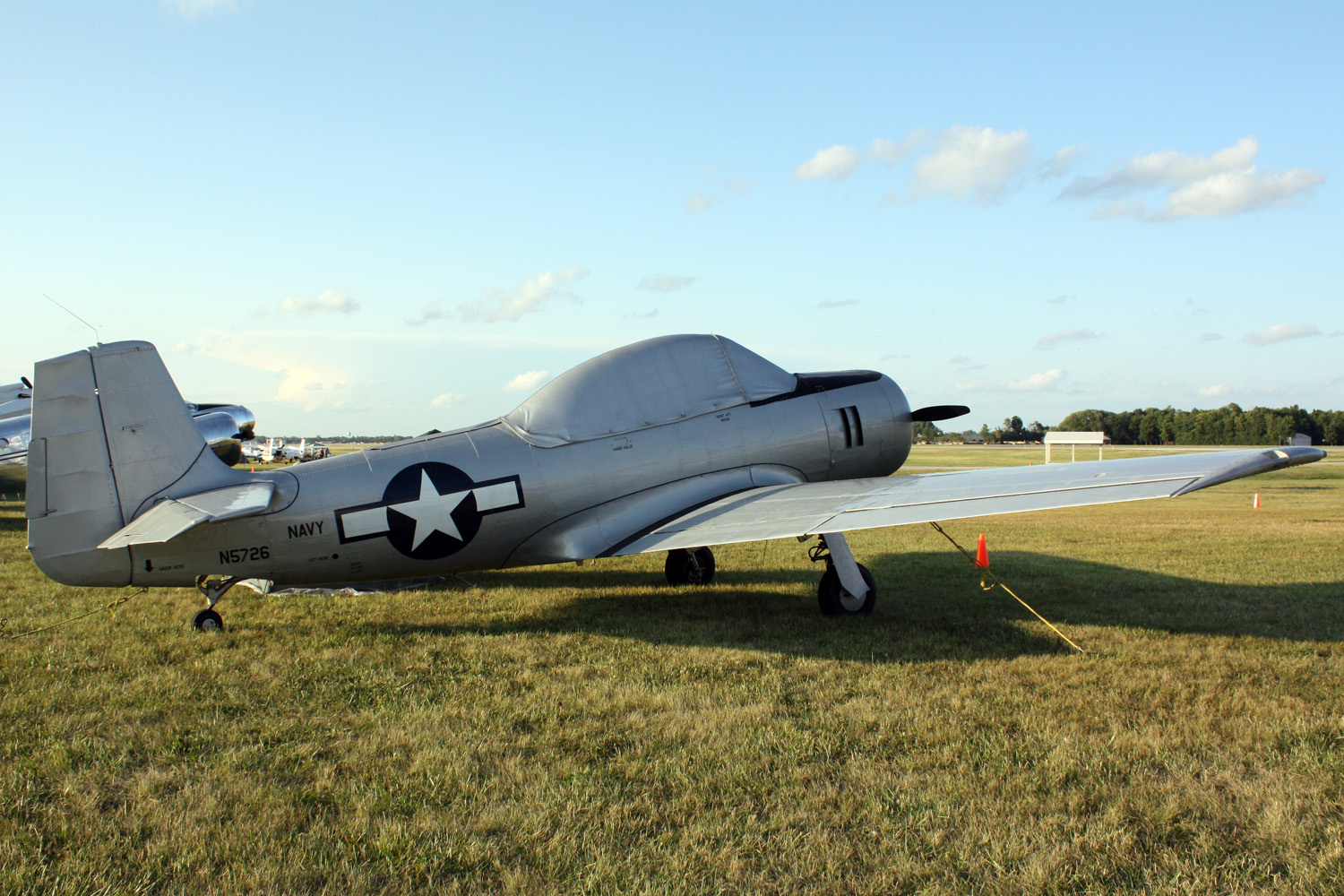 Fairchild XNQ/T-31 at Airventure 2009, Oshkosh, Wisconsin